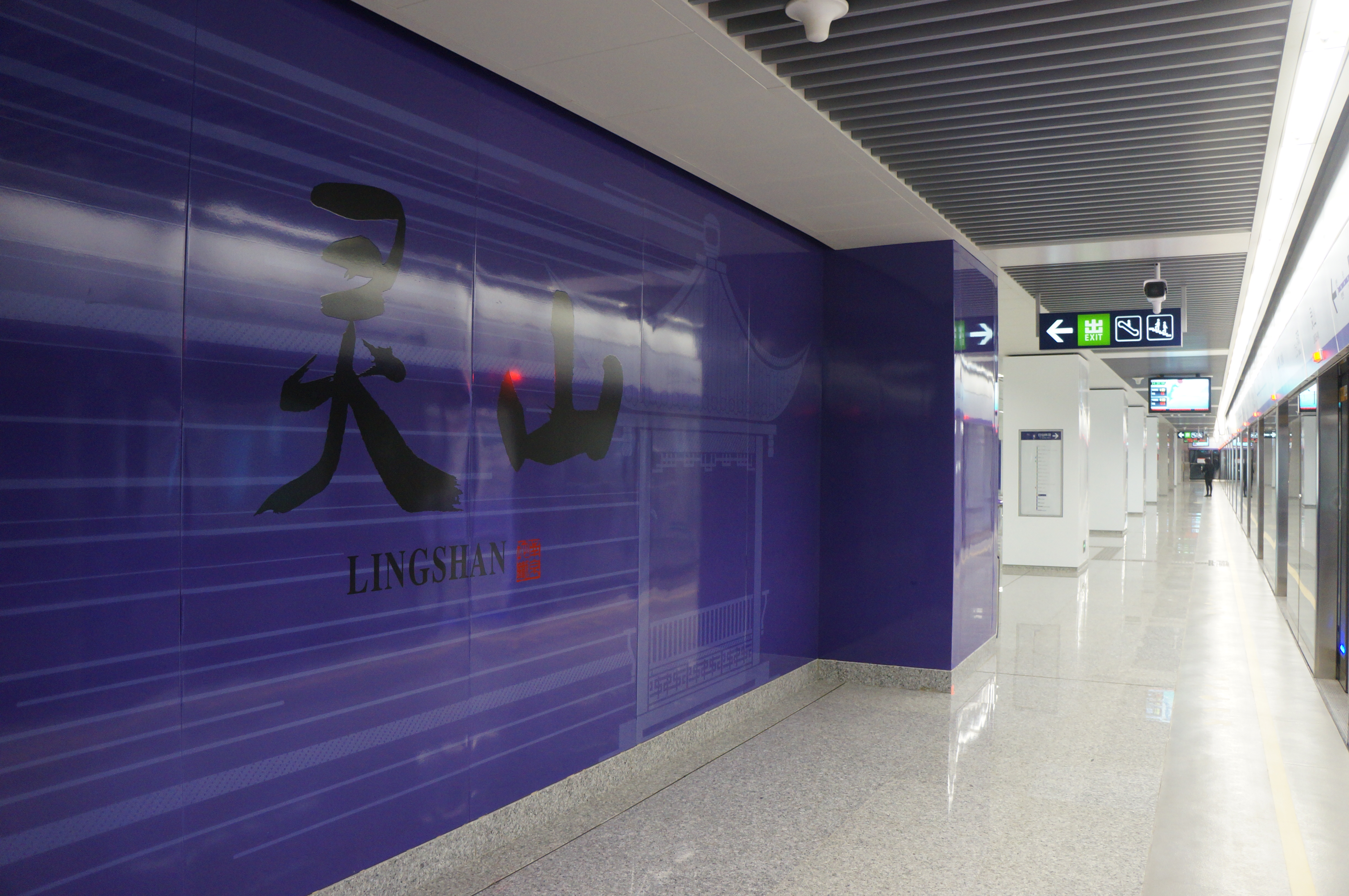 201704 Lingshan Station Nameboard